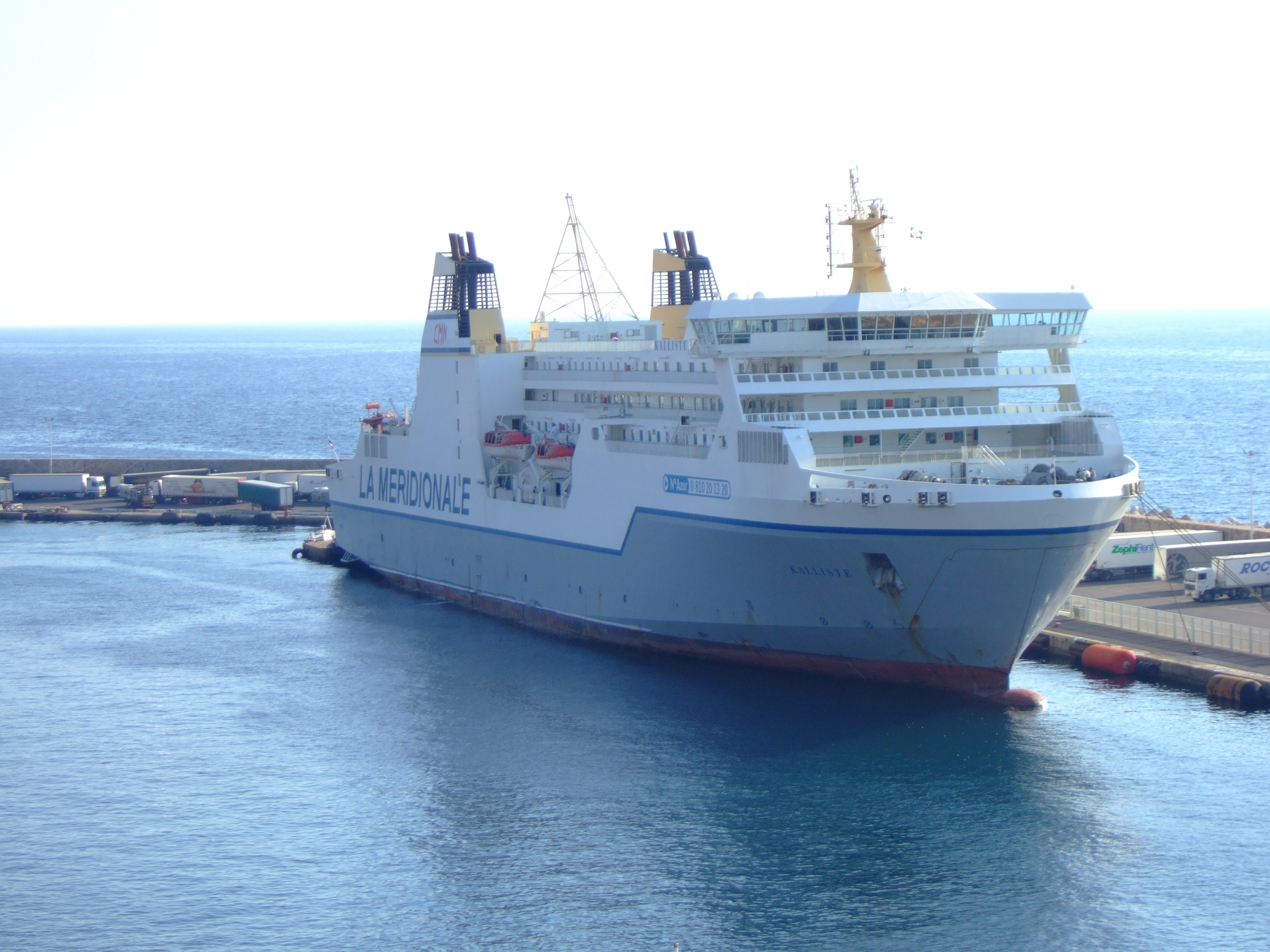 Mv Kalliste from CMN company awaiting in Bastia port. Corsica, France.